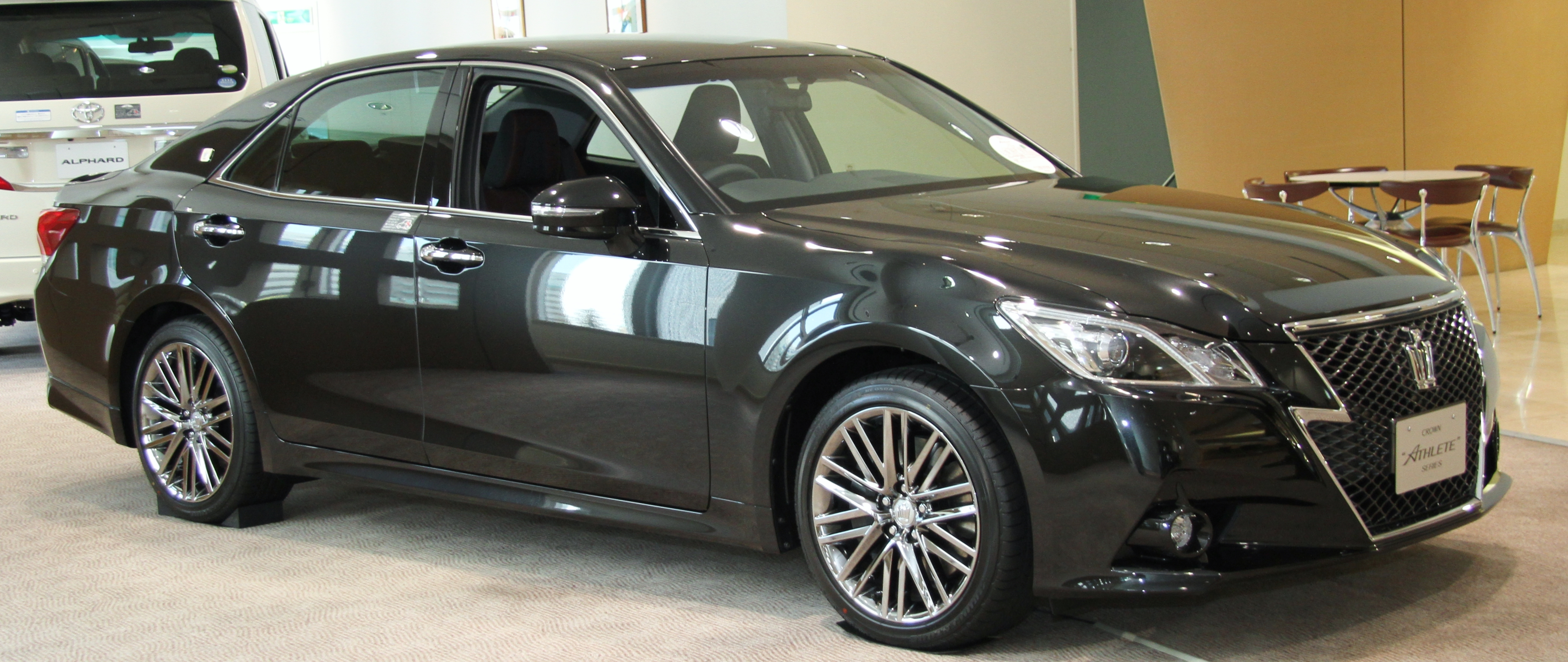 Toyota Crown